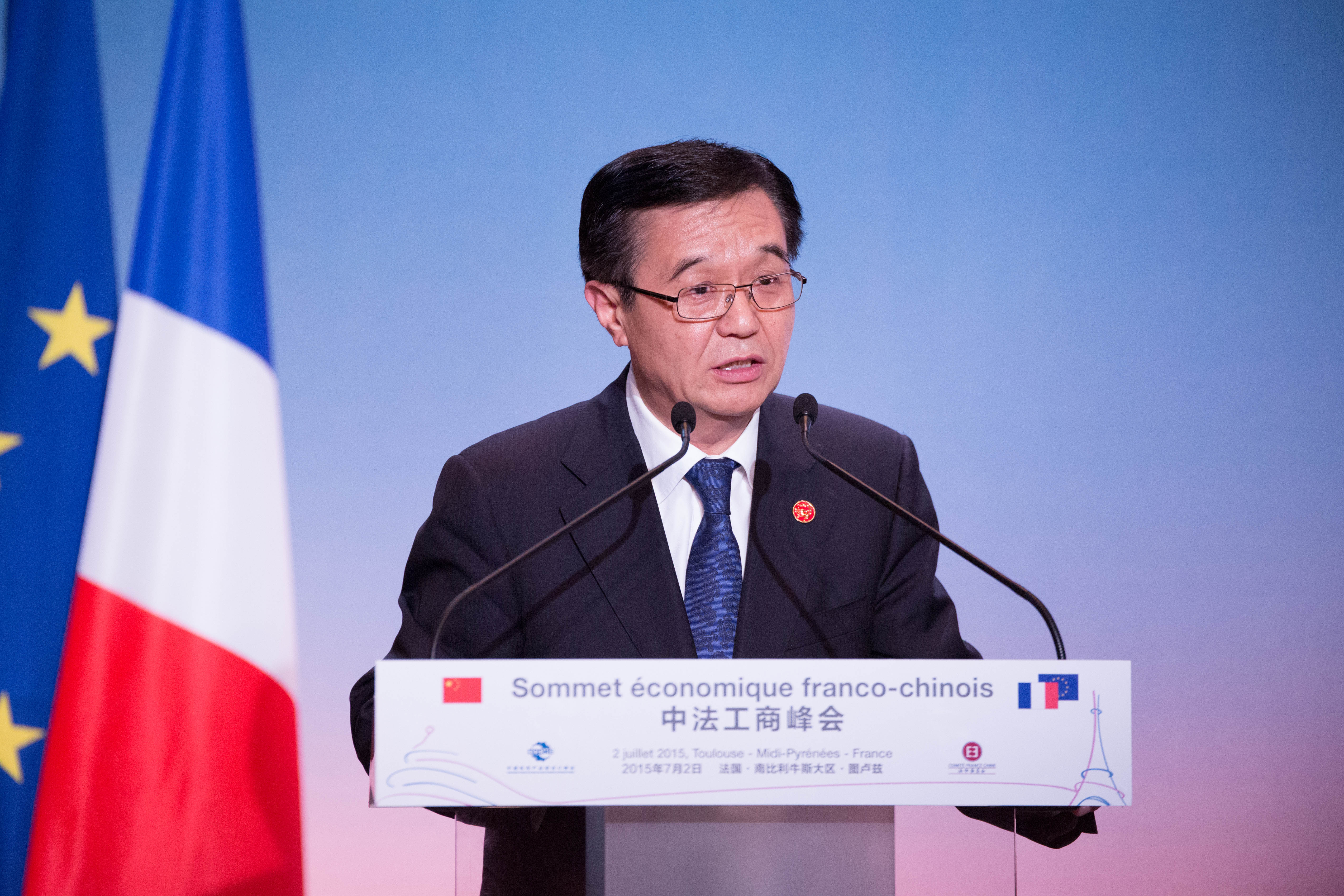 Gao Hucheng at Sommet économique franco-chinois